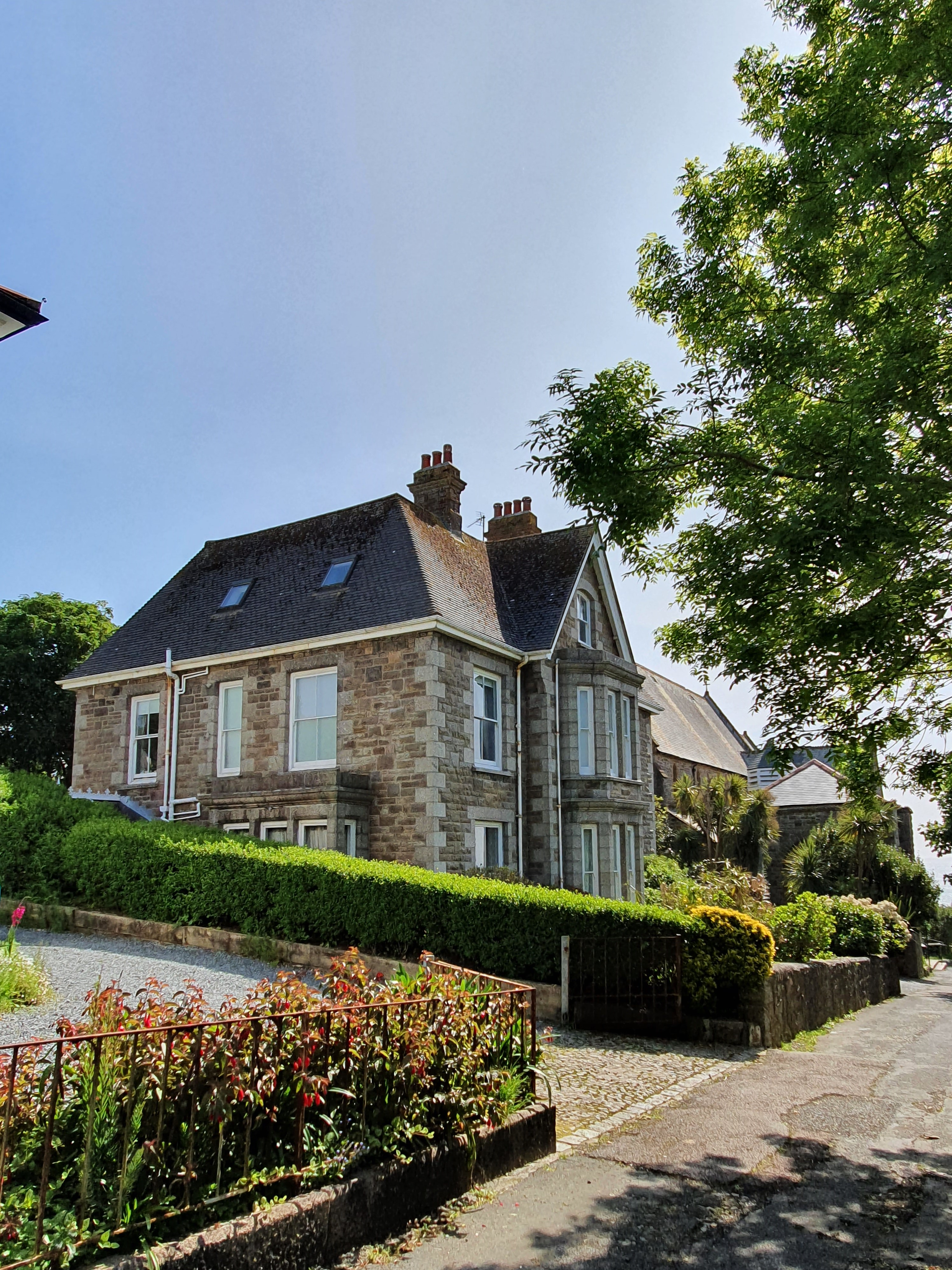 Vicarage next to the Church of St John the Baptist, Trewartha Terrace, Penzance.